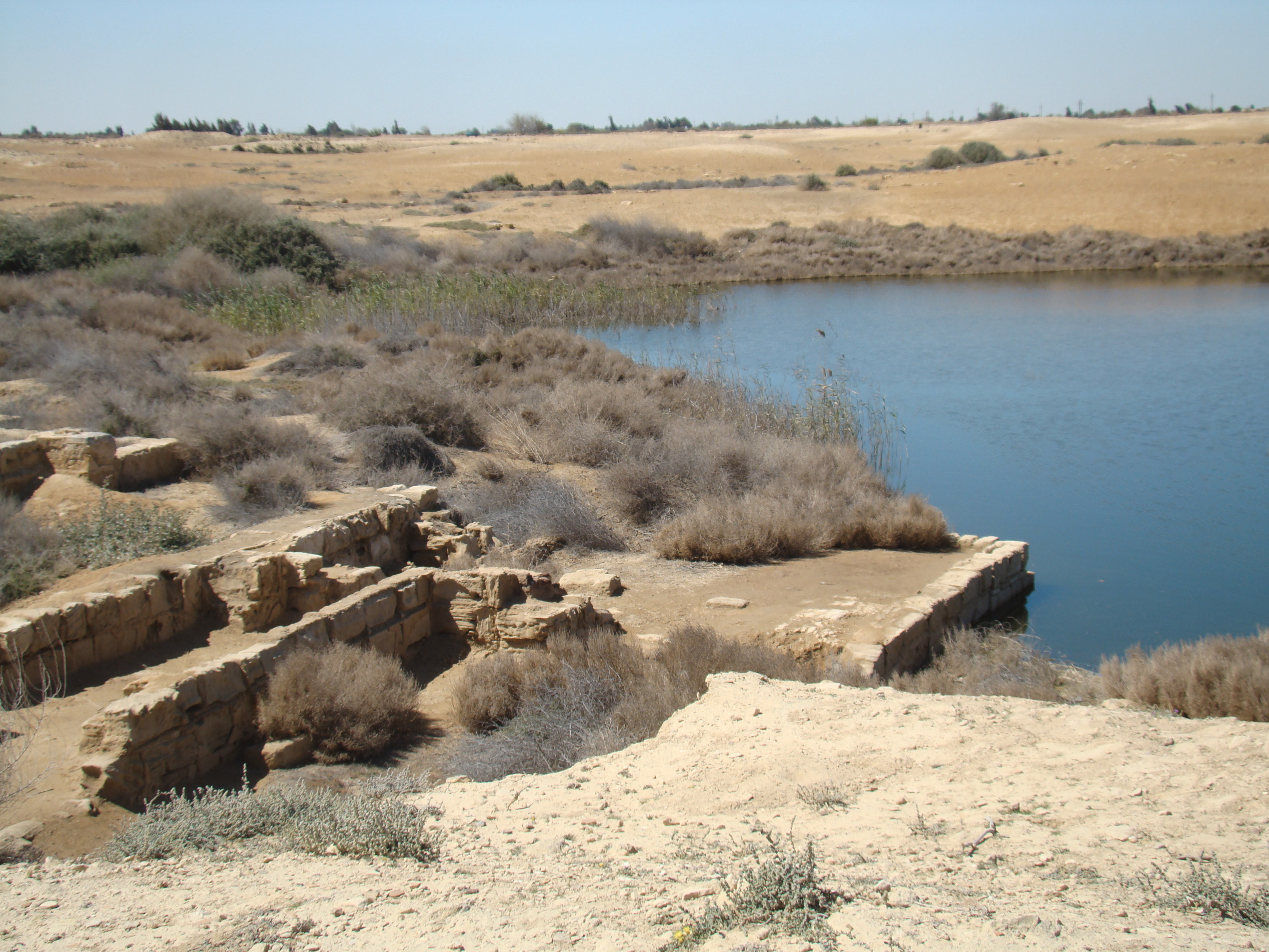 AWIB-ISAW: Landscape at Abu Mena (II) A view of the bath complex where it goes right up to the lake. This is a major concern for the preservation of the baths at Abu Mena as most of them are flooded as well. by Iris Fernandez (2009) copyright: 2009 Iris Fernandez (used with permission) photographed place: (Abu Mena) [ Published by the Institute for the Study of the Ancient World as part of the Ancient World Image Bank (AWIB). Further information: [